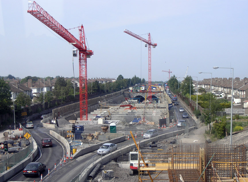 A View of the construction of the Dublin Port Tunnel, Ireland in 2004. The tunnel connects the Dublin Port with the M1 motorway